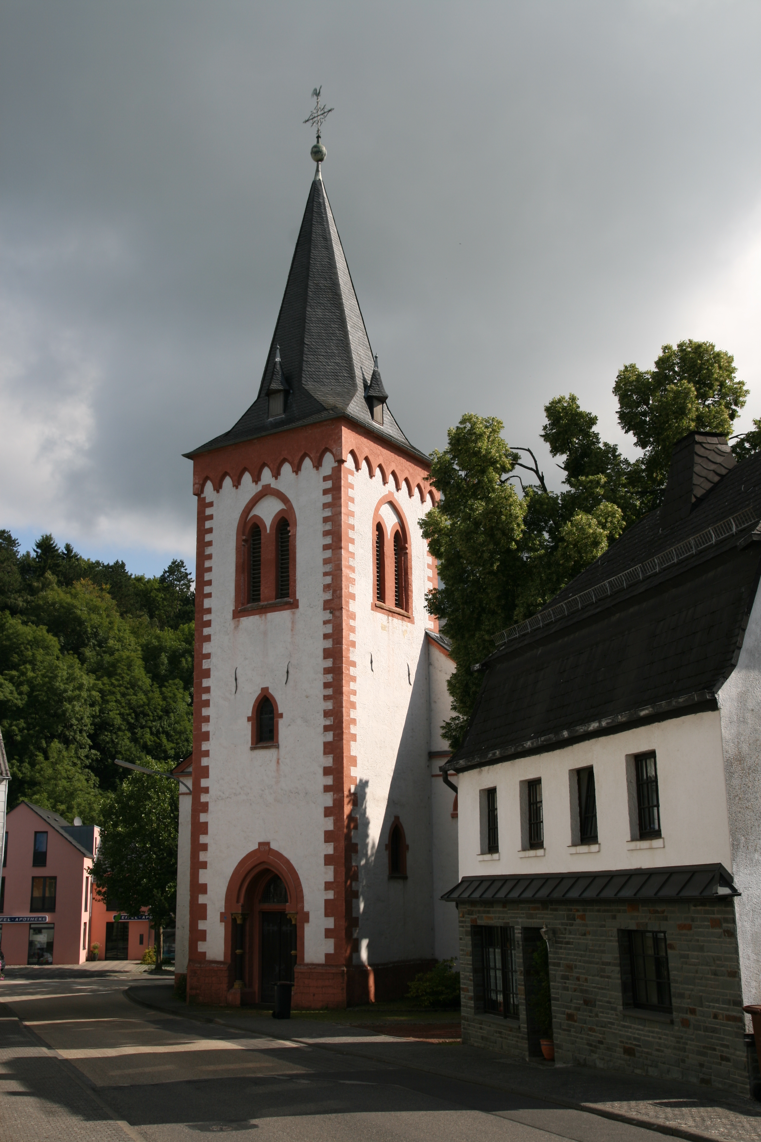 Dahlem (Nordeifel) Pfarrkirche